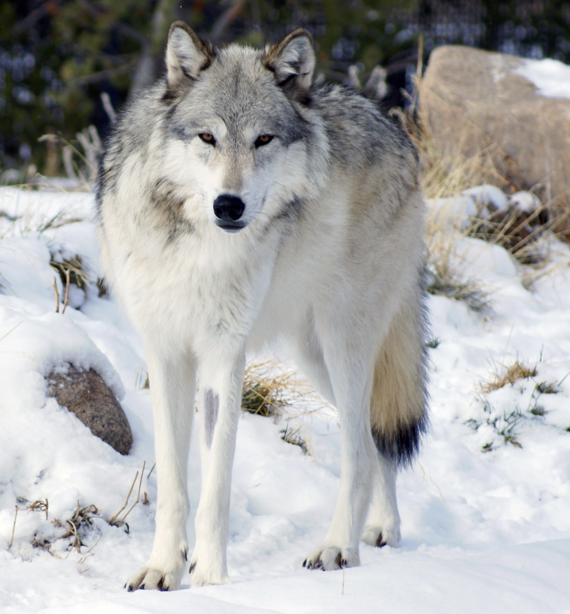 C. l. occidentalis at the Grizzly and Wolf Discovery Center at West Yellowstone, Montana.